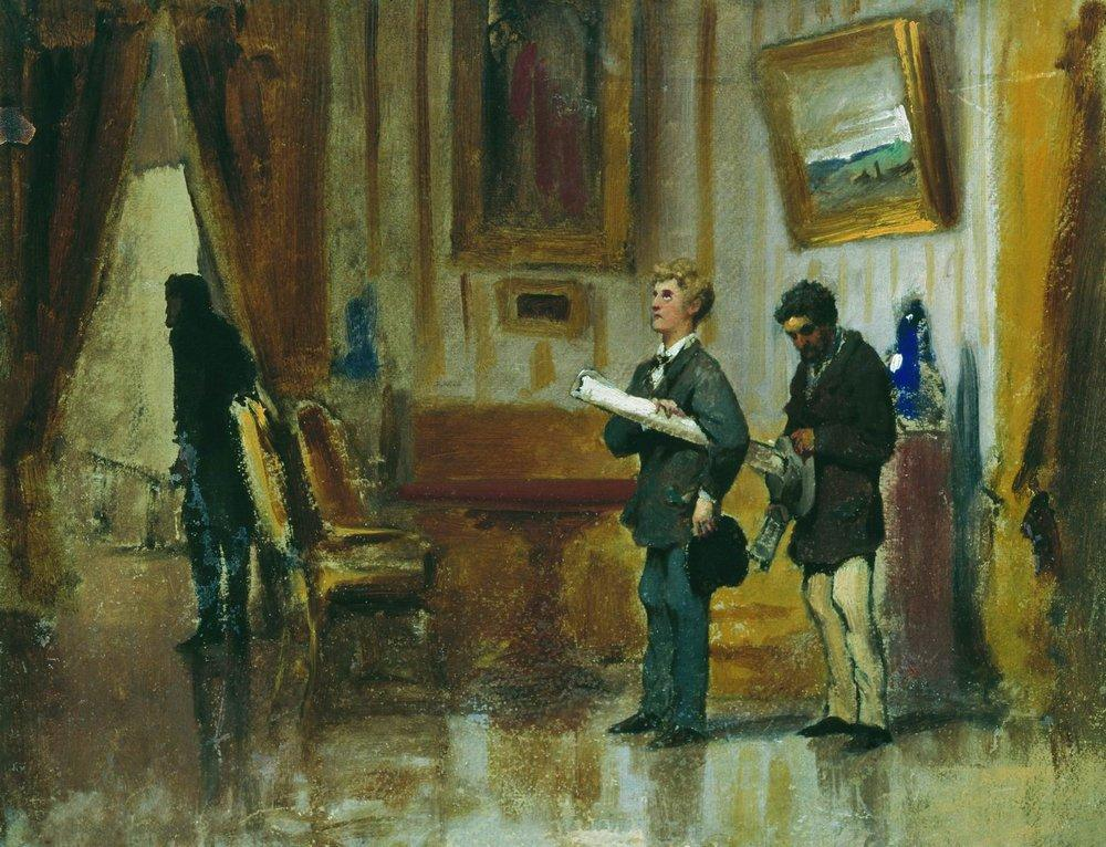 Painters in the hall of the rich man